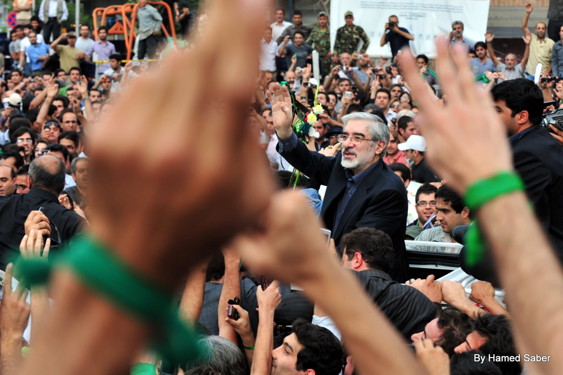 Silent demonstration for saying condolence to family of this week martyrs A lot more photos from this day: [1] Viva Iran!